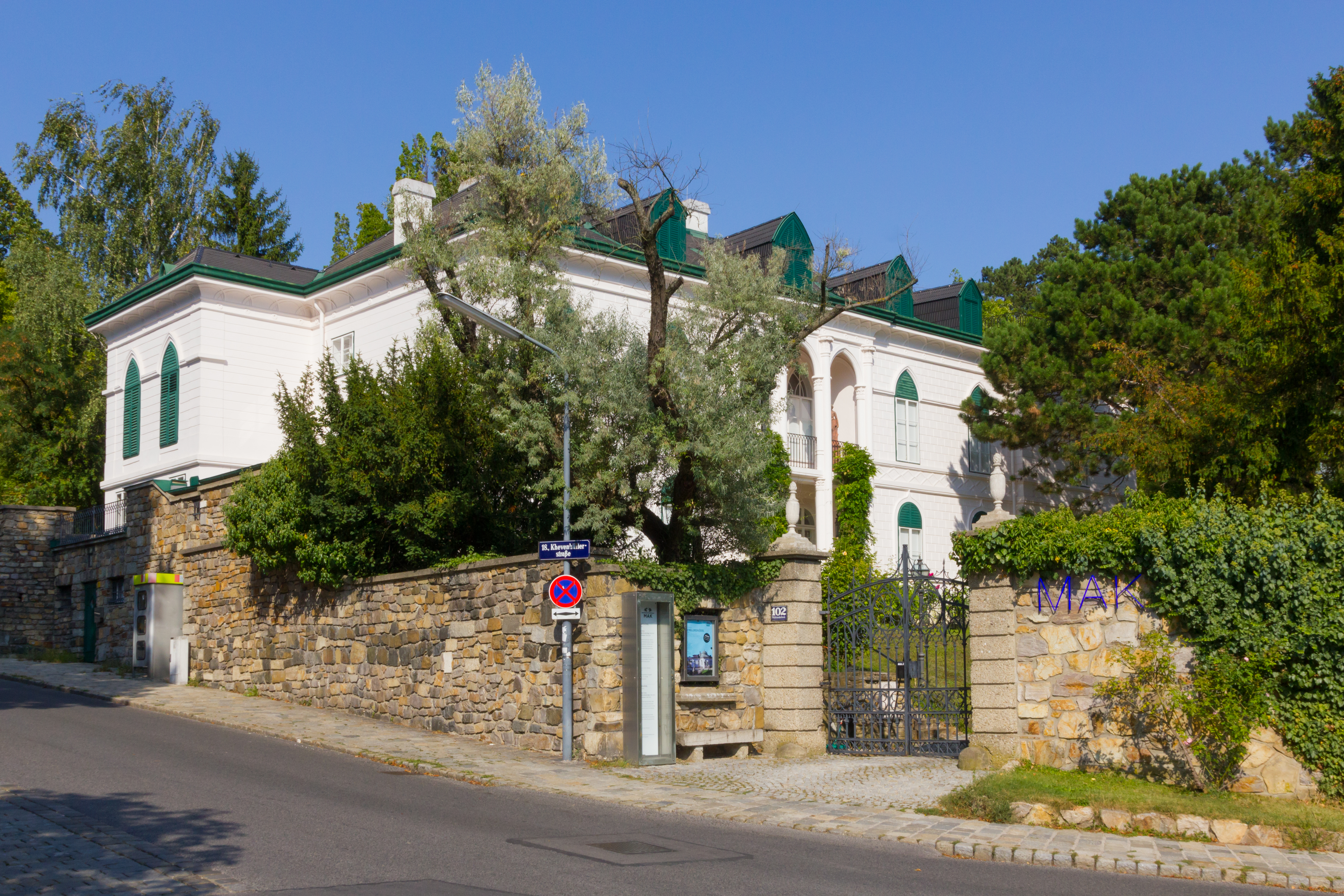 The Geymüller-Schloss in Pötzleinsdorf